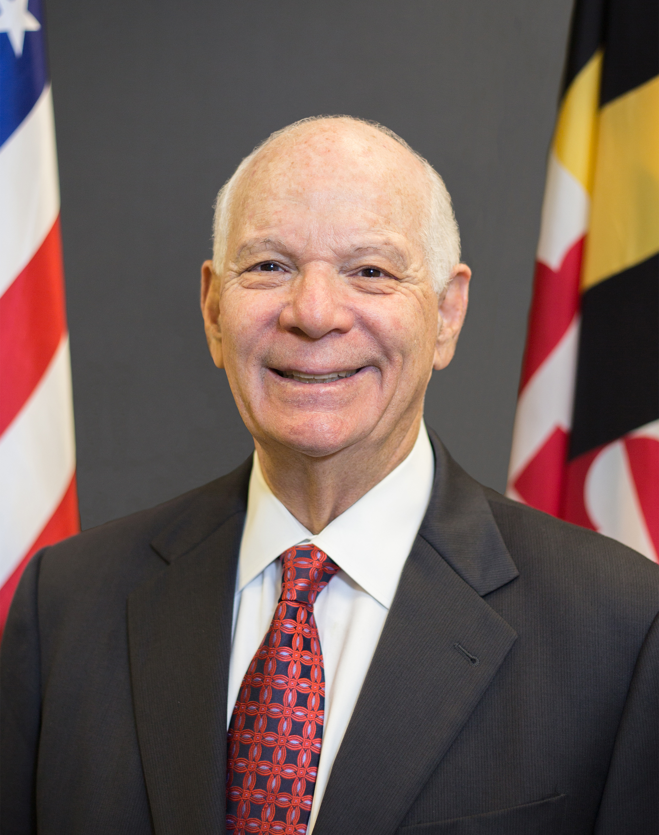 Official portrait of U.S. Senator Ben Cardin (D-MD).